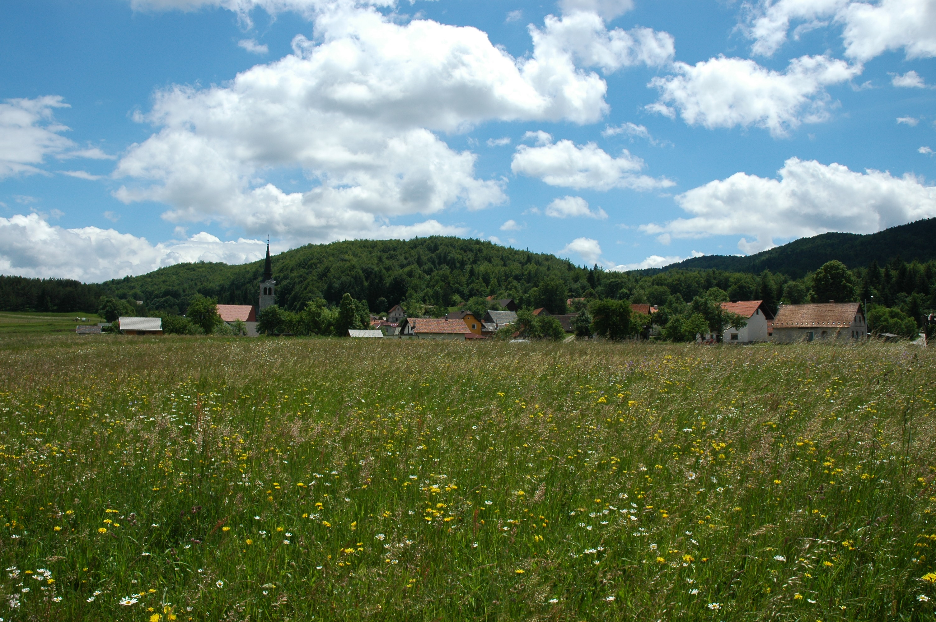 Babno Polje, Slovenia